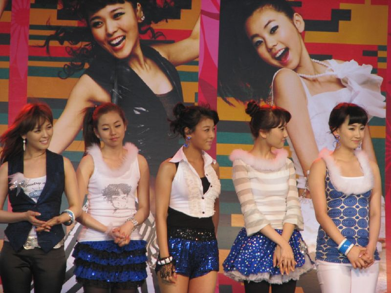 The Wonder Girls at a fan meeting in Bangkok.